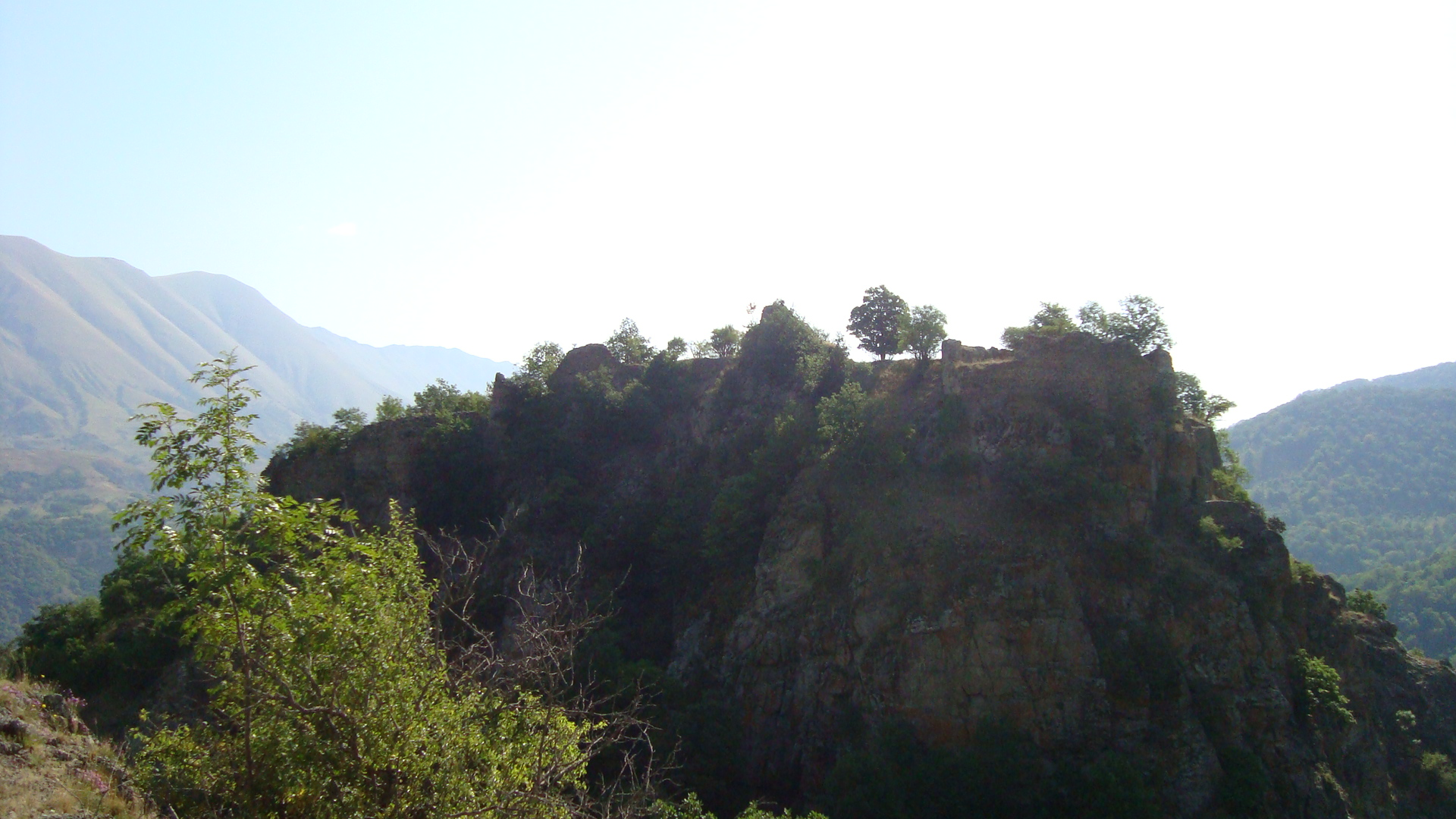 Handaberd fortress. Location: Knaravan village, Shahumian region, Republic of Mountainous Karabakh (Artsakh).